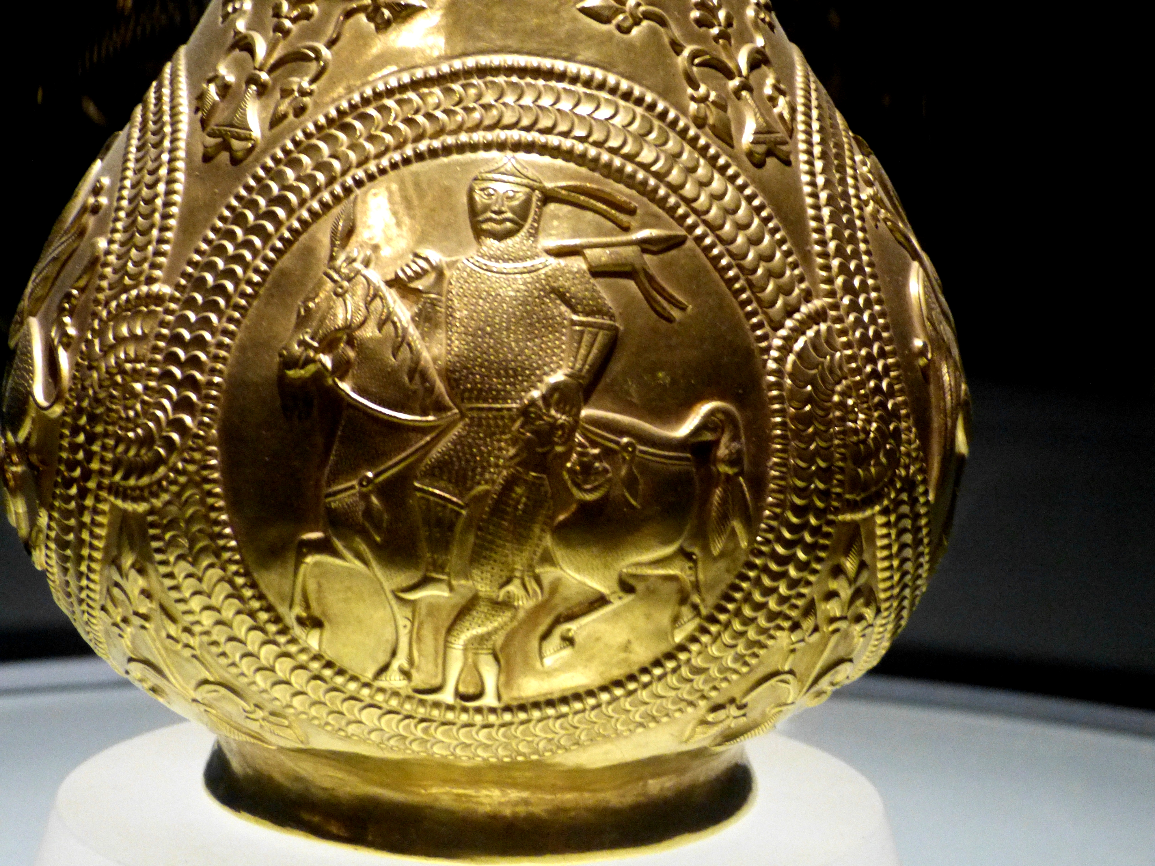 Vienna ( Austria ). Kunsthistorisches Museum: Treasure of Nagyszentmiklos - Golden medaillon jug ( 8th century AD ).